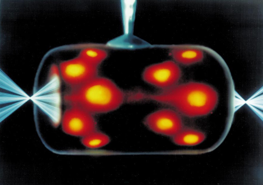 Composite image of a hohlraum irradiation shot on the NOVA laser. Orange/red areas are X-rays from the superheated plasma spots inside the hohlraum imaged by an X-ray microscope while the conventionally taken image of the hohlraum on a stalk and the drawn-in multiple laser beam cones entering from the left and right have been superimposed. Cleaned up in photoshop to remove dust spots from scan. Source: Image taken from LLNL document "Laser Programs, the first 25 years". [1]